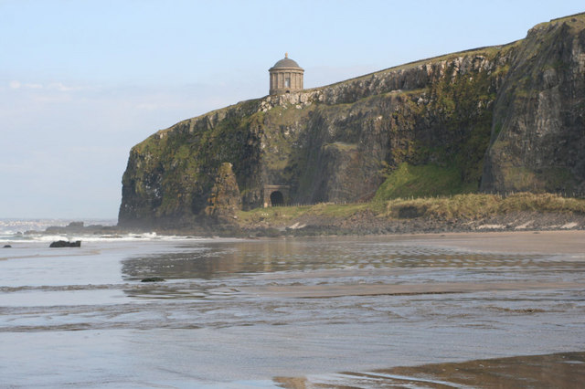 The Mussenden Temple. Built by Lord Frederick Hervey Bishop of Derry and 4th Earl of Bristol as a library with the Temple of Vesta in Rome as example. In a way Hervey challenged the elements of nature by the following line which can be read around the dome of the Temple: 'Tis pleasant, safely to behold from shore - The rolling ship, and hear the tempest roar.